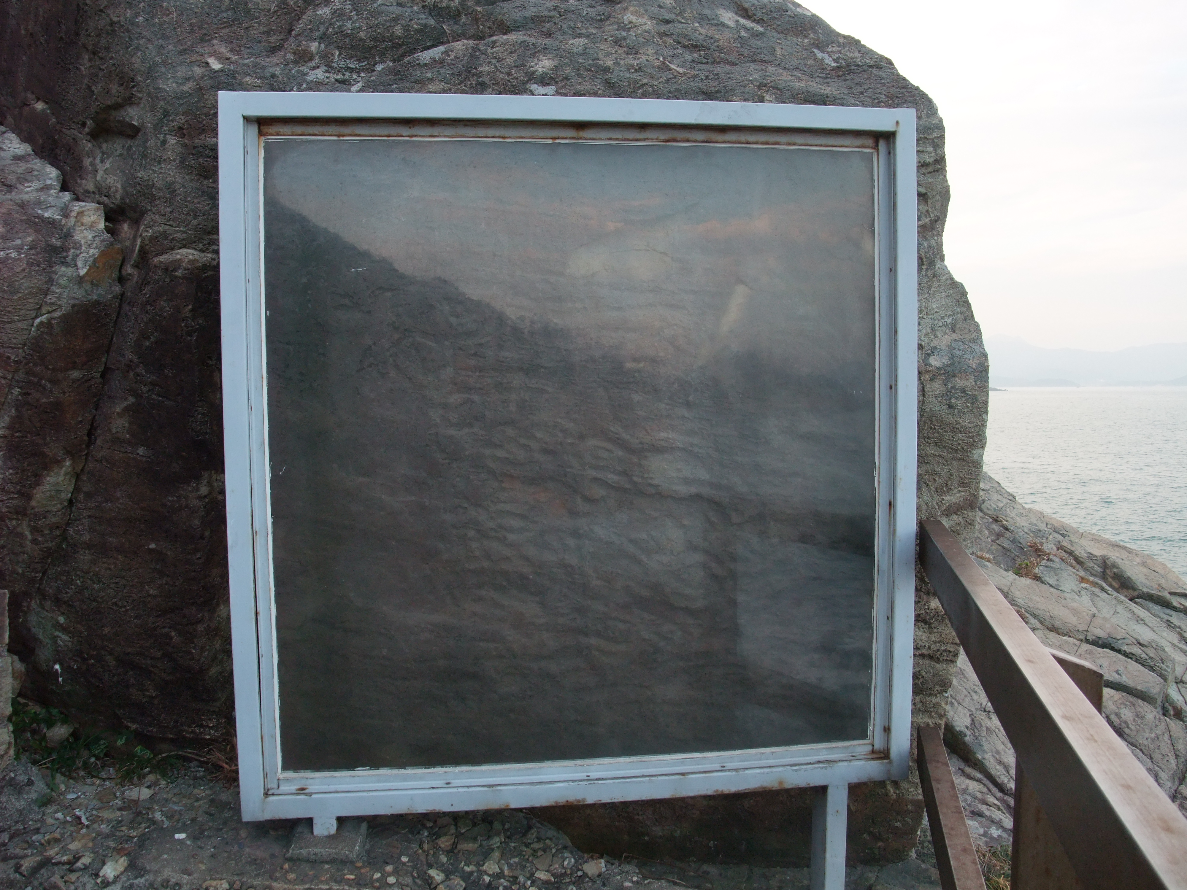 Photo of Lung Ha Wan Rock Carving